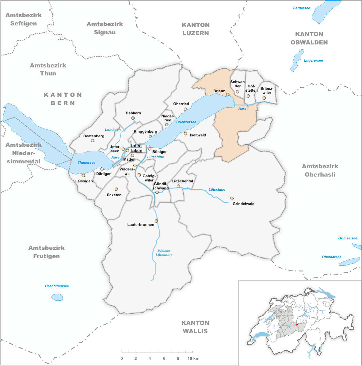 Municipality Brienz